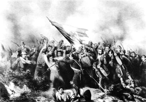 An episode of the action of Barranca Seca lithograph by Hesiquio Iriarte, belonging to the National Museum of Interventions